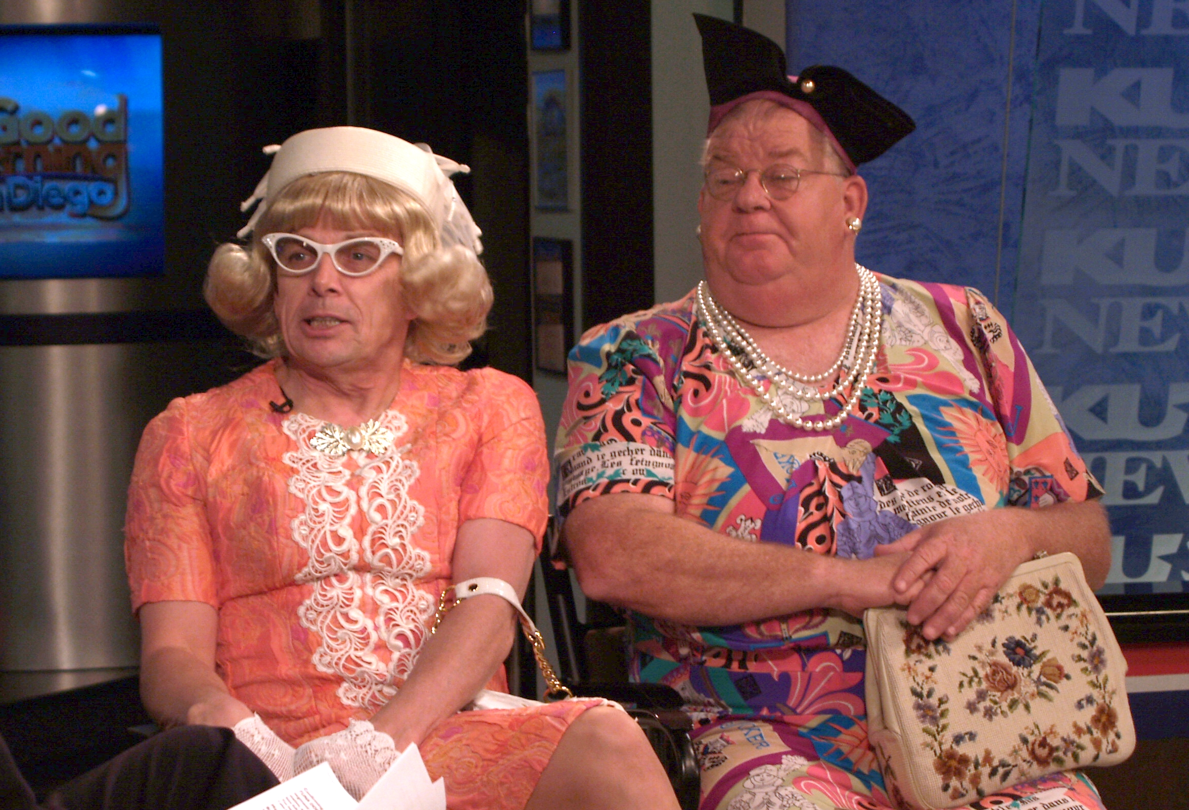 I took this photo of Jaston Williams, Joe Sears while they were costumed as Vera Carp & Pearl Burras. They were appearing in San Diego in the Play "Tuna Does Vegas."